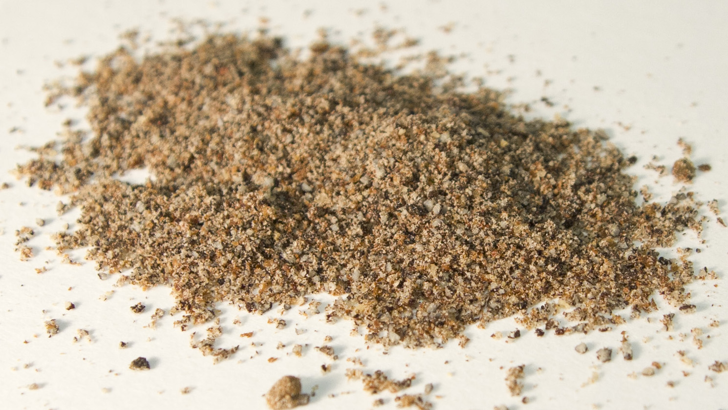 Ground cardamom. The product name is Golder Star and the producter is GS-Yhtymä.